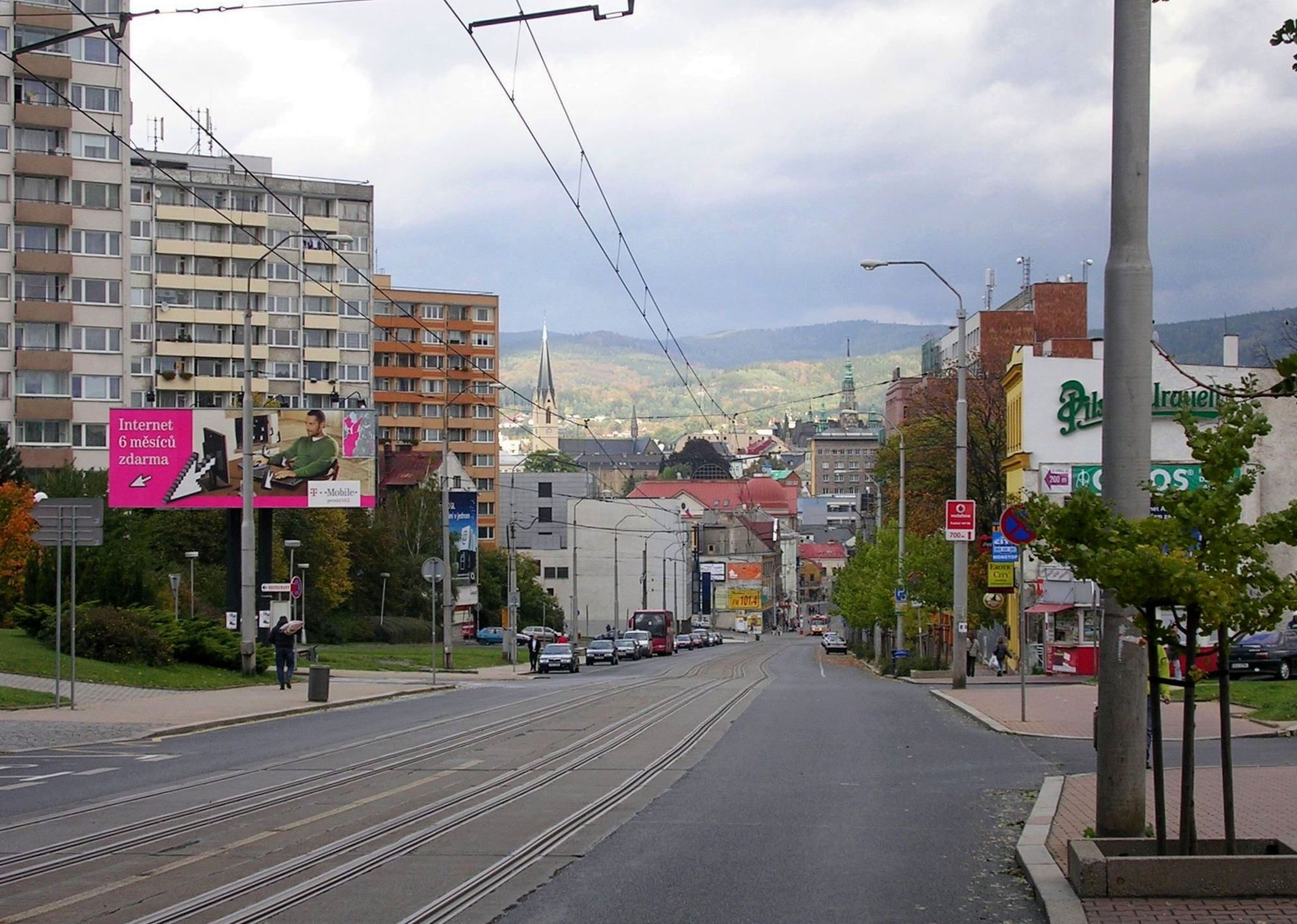 Liberec, Czech Republic. 1. máje street from the main train station. - Google Maps - Google Earth